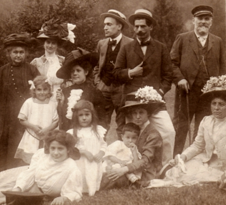 Members of the Dobrogeanu-Gherea, Ghermani, Cernovodeanu, and Zarifopol families, vacationing together in Sinaia. Top row, standing, from the right: Constantin Dobrogeanu-Gherea, Marxist theorist, literary critic, and restaurateur; Dionisie Ghermani Sr, engineer; Paul Zarifopol, literary critic and social critic, Constantin Dobrogeanu-Gherea's son-in-law; Victoria Cernovodeanu, Constantin Dobrogeanu-Gherea's daughter-in-law; Elena Cernovodeanu, wife of General Cernovodeanu; Filomela Trandafiridi. Middle row, seated, from the right: Fany Zarifopol, wife of Paul Zarifopol, daughter of Constantin Dobrogeanu-Gherea; Sonia Zarifopol, daughter of Paul and Fany Zarifopol. Front row, seated and reclining, from the right: Tatiana de Sanzewitch, classical pianist; Maria Cernovodeanu, classical pianist, holding in her arms Paul Zarifopol Jr; Ecaterina Ciomac.